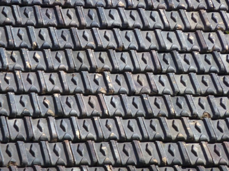 roof tiles on a roof in Eichenberg, northern Hesse